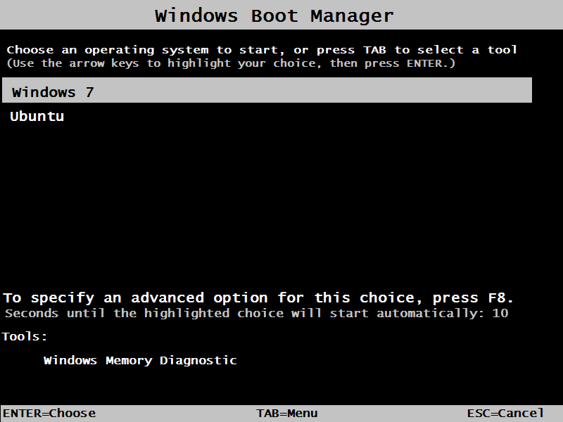 Windows Boot Manager in Windows 7, created by me in Microsoft Paint.